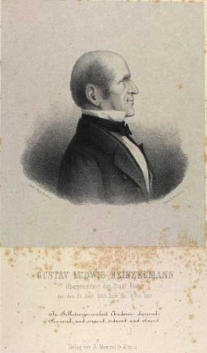 Ludwig Gustav Heinzelmann (1803-1861), Danish mayor of Altona